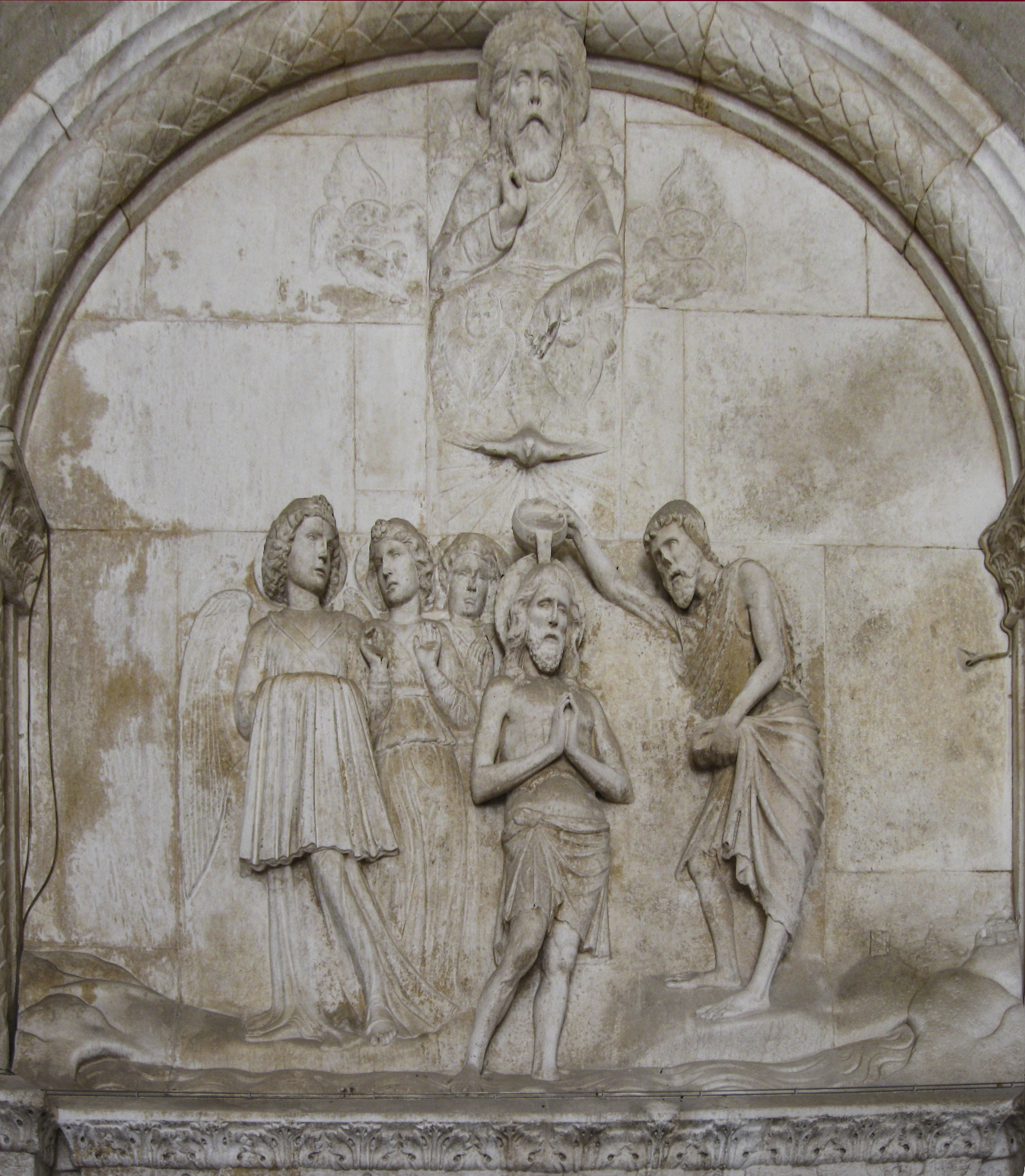 Vestibule with the scene of The Baptism of Christ made by Andrija Aleši. Cathedral of St. Lawrence in Trogir